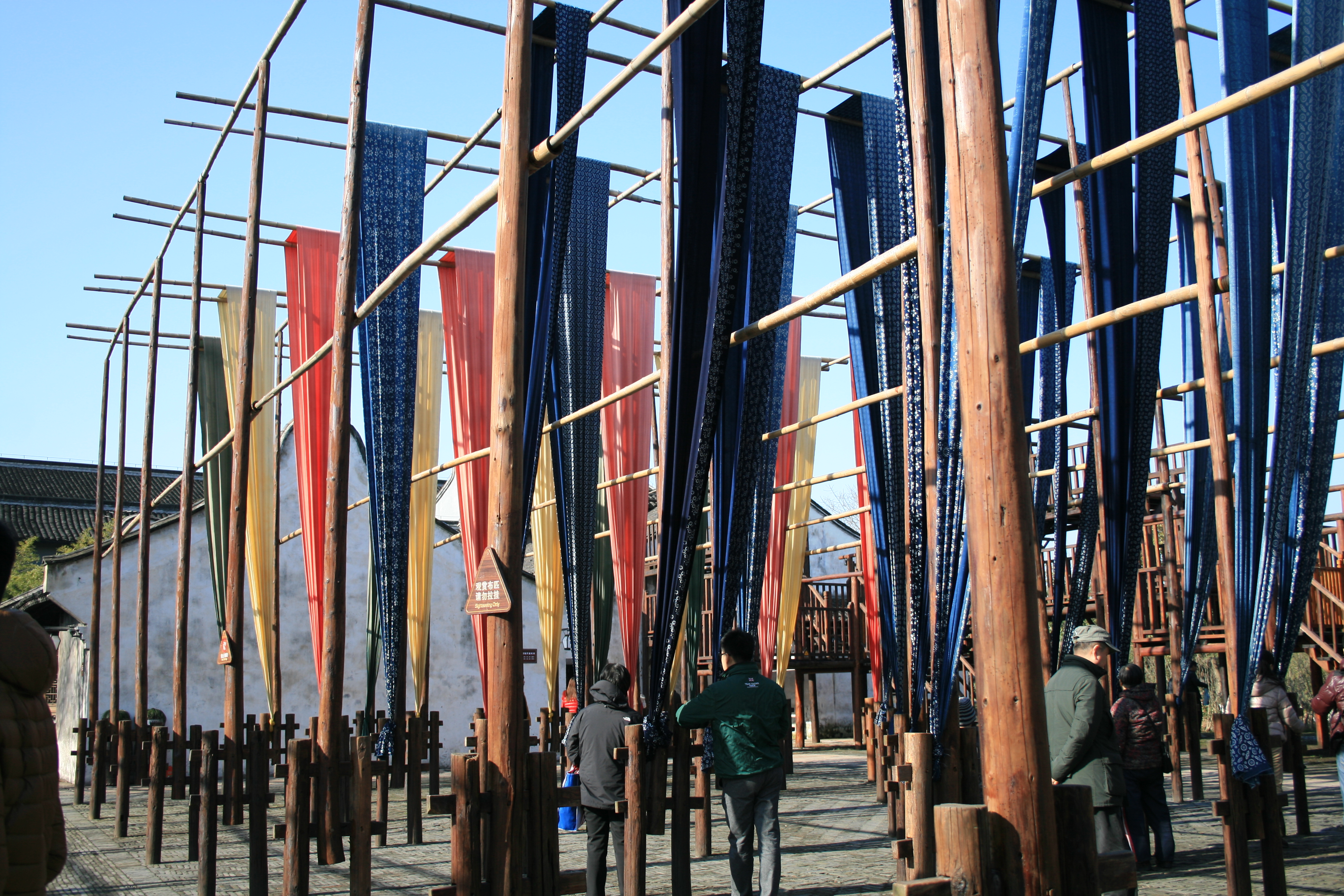 visit of Wuzhen town, drying dyied silk